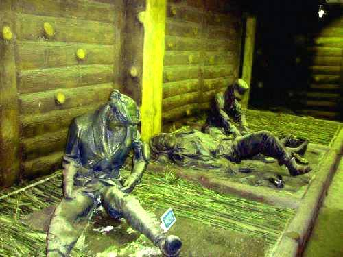 Distributed by the original author as "CC-by-SA". I have an email from him written in Korean.